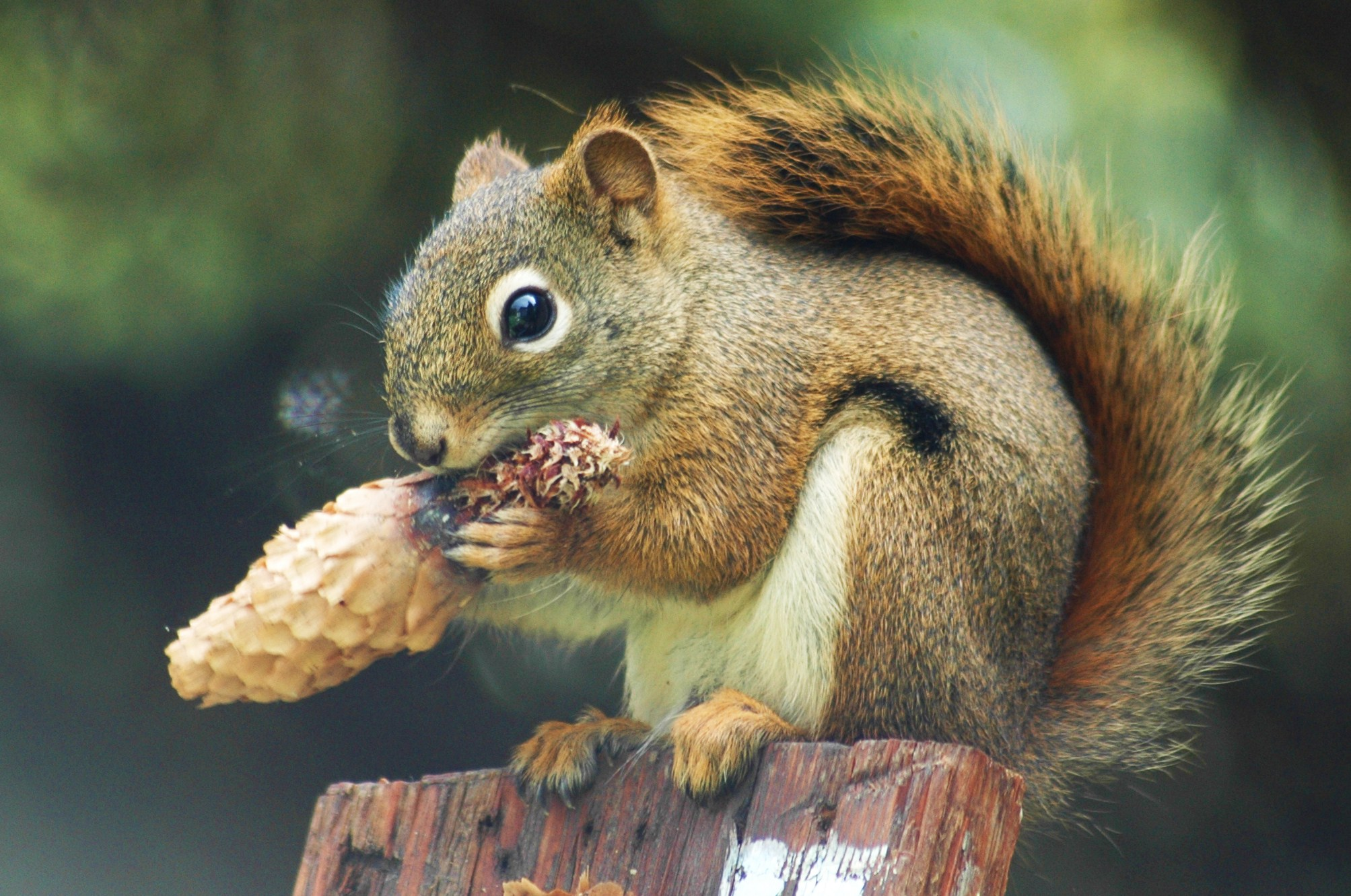 An exceptional example of his species, "charlie" (warmly recognized as) the pine squirrel is enjoying a pine cone from the pine tree he frequents when not at home under it in his squirreluminium.